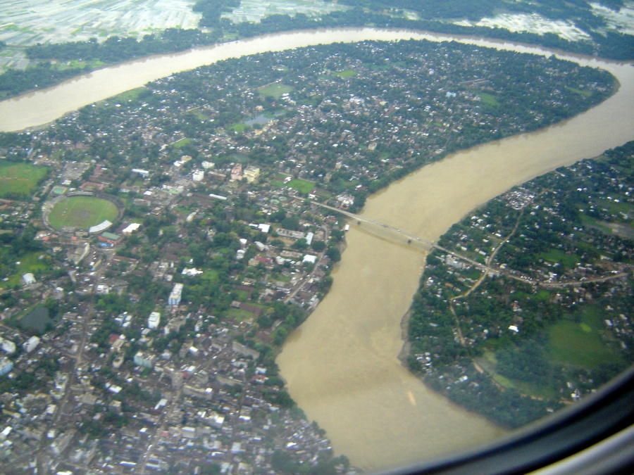 A view of Sadarghat bridge over the Barak river in Silchar, Assam from a Boeing 737-200 aircraft.